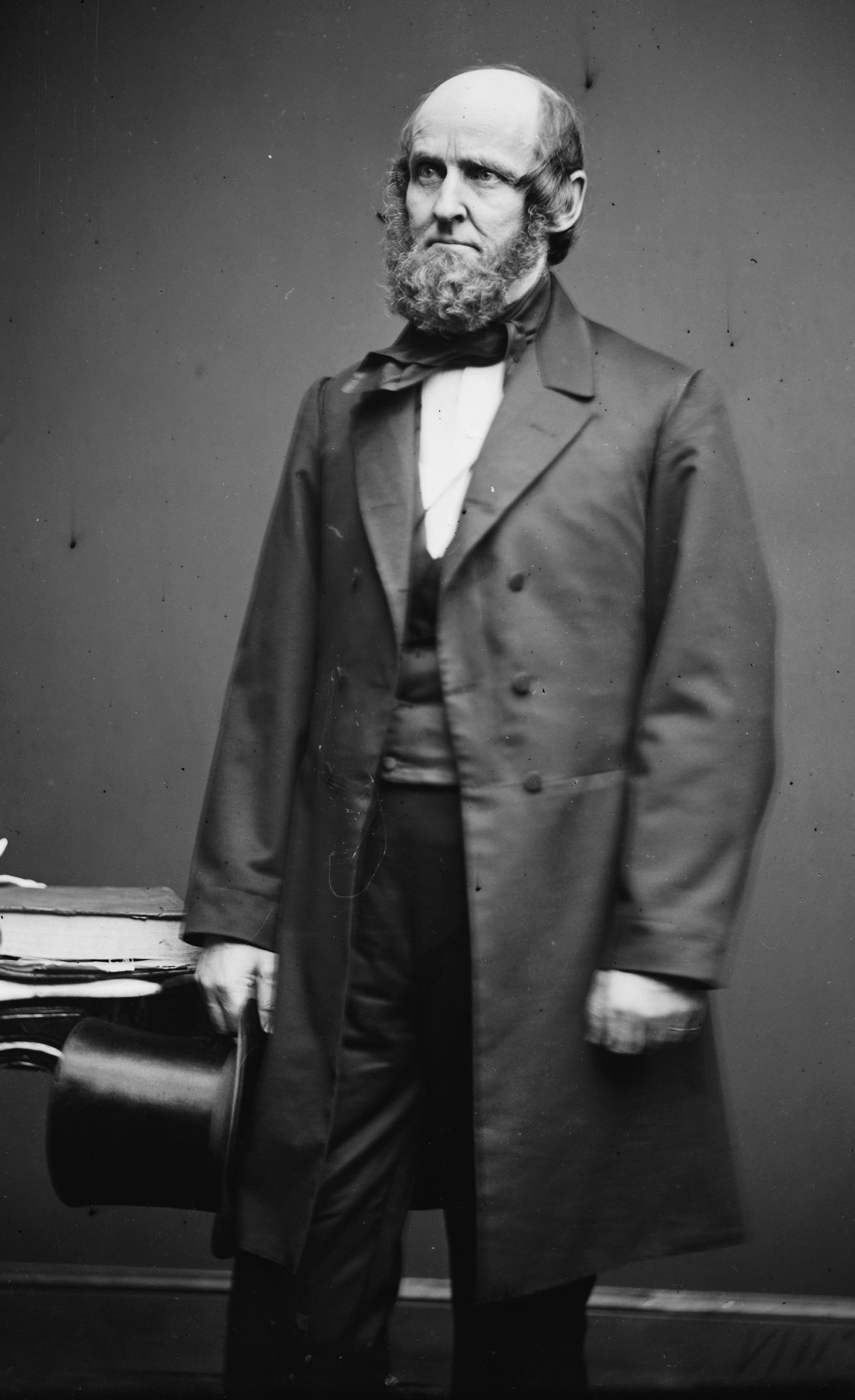 Elbridge G. Spaulding. Library of Congress description: "Spaulding, Hon. Elbridge of N.Y.".